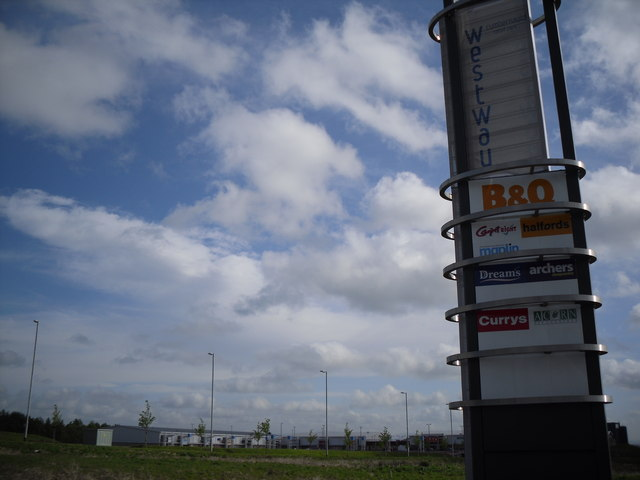 Westway Retail Park sign in Wardpark, Cumbernauld